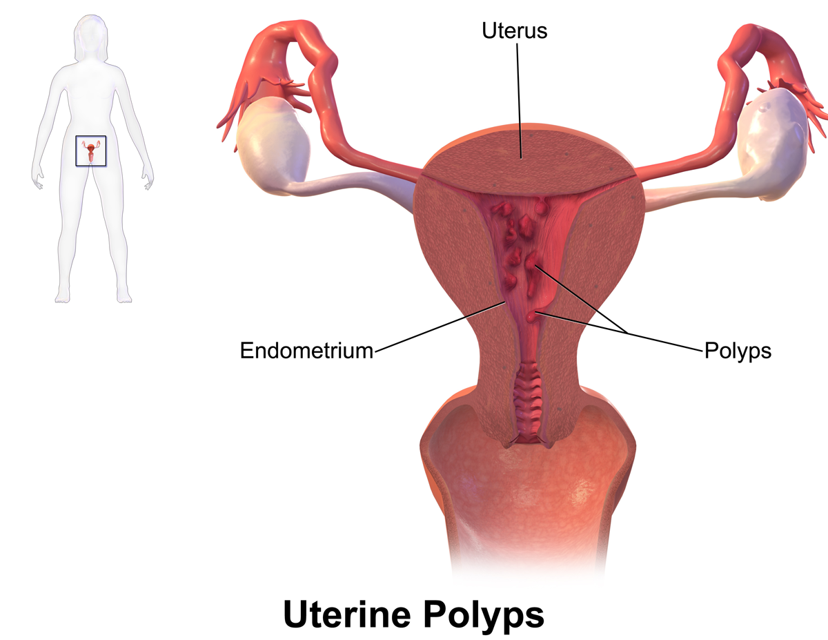 Uterine Polyps. Animation in the reference.[1] This image was donated by Blausen Medical.